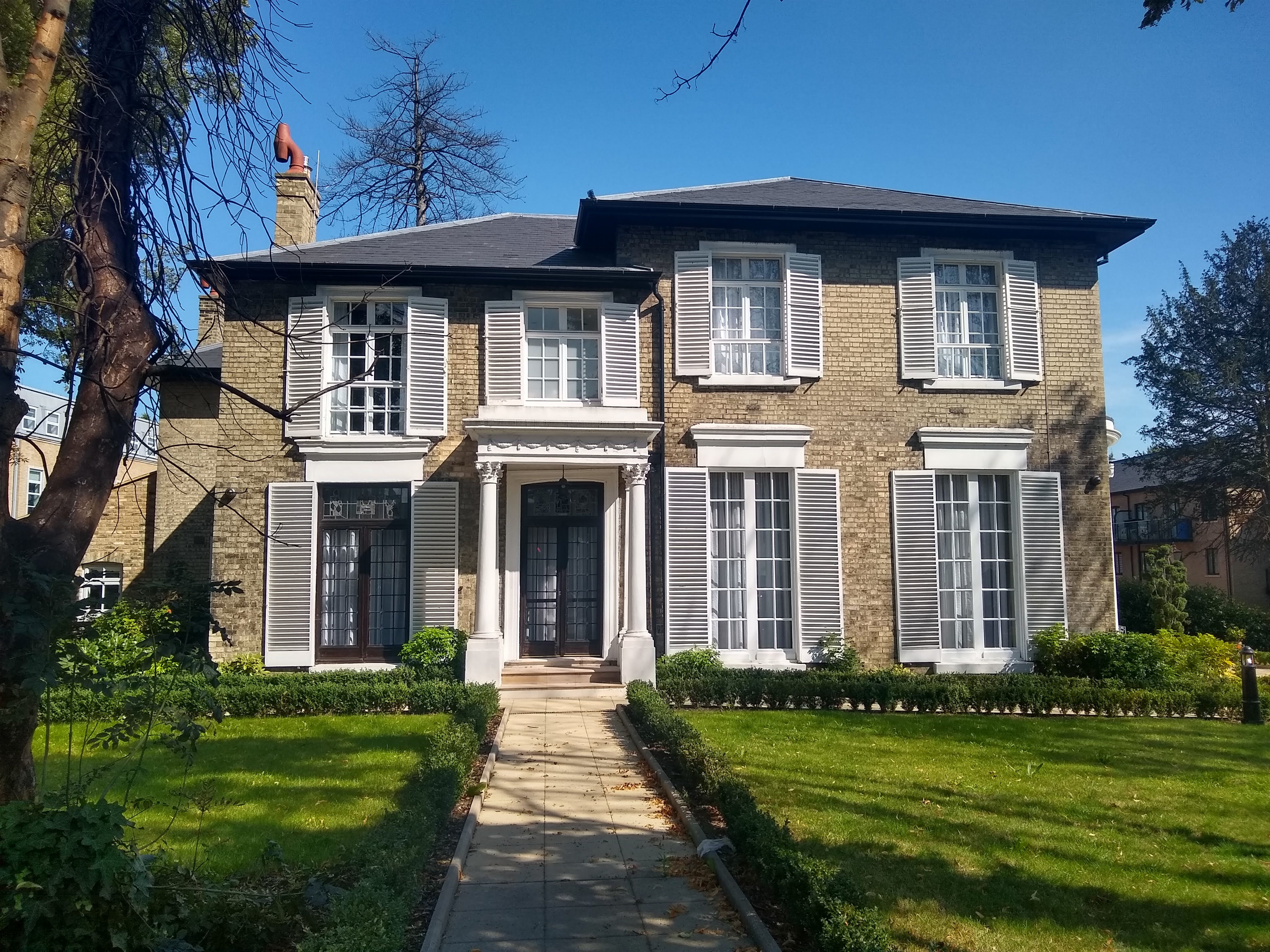 Truro House, Palmer's Green Aug 2019